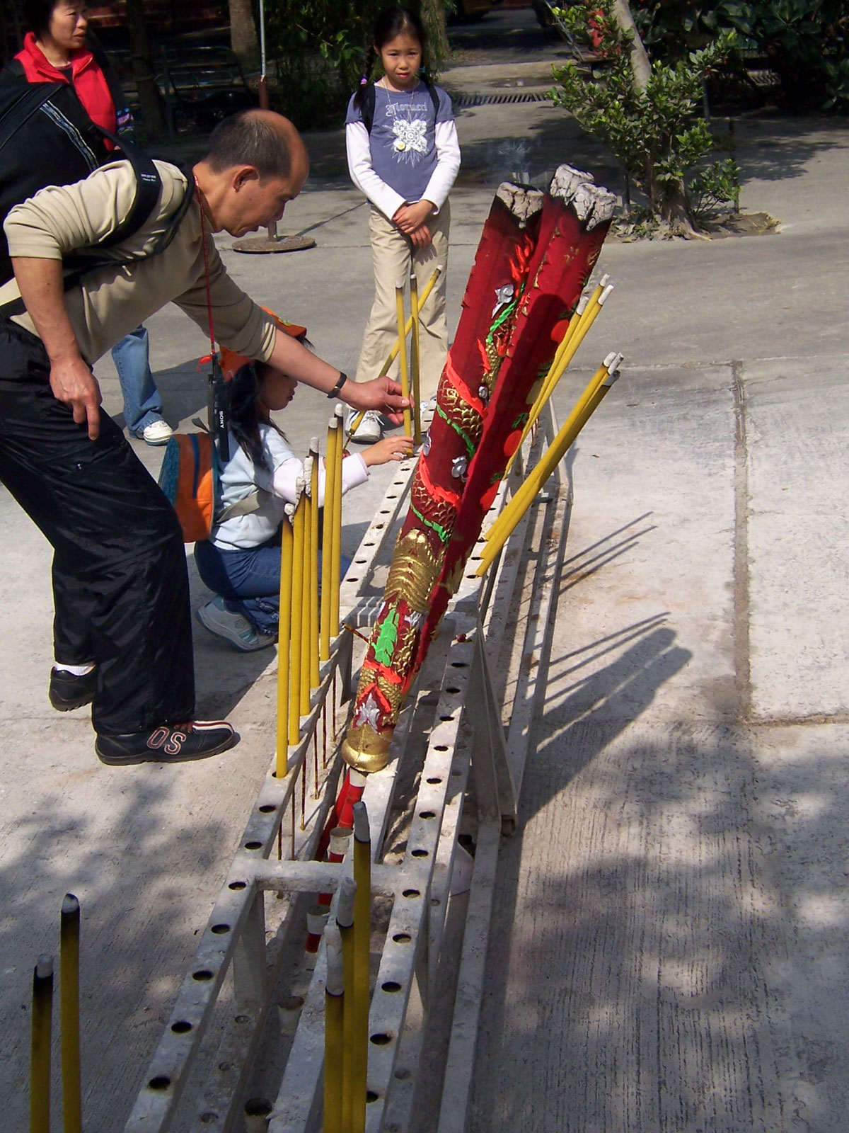 Incense sticks being burnt at the Po Lin Monastery on Lantau Island. Taken by Enoch Lau on 31 December 2005. As a courtesy, please let me know if you alter this image or this image description page. Original filename was 100_0971.JPG.